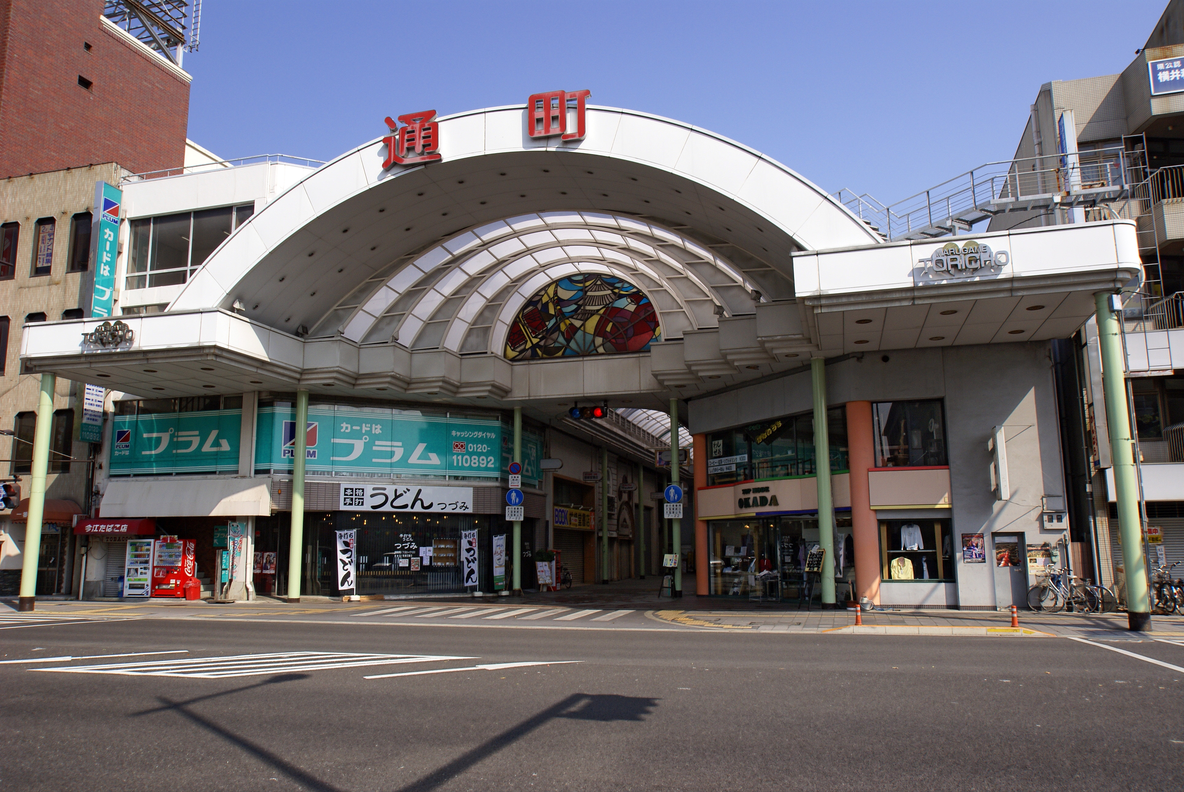 Tori-cho shopping street in Marugame, Kagawa prefecture, Japan